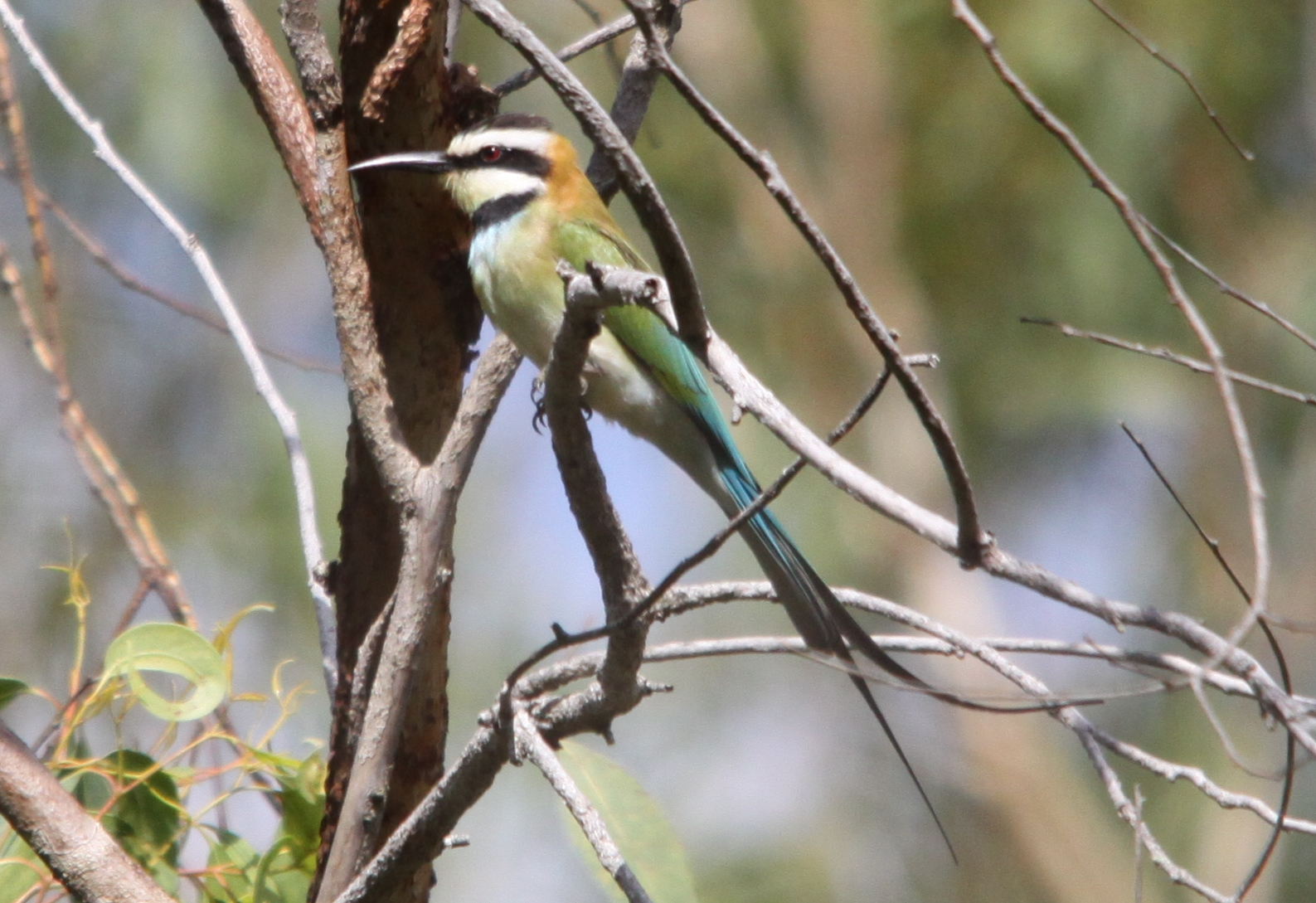 Merops albicollis, photographed in Kenya